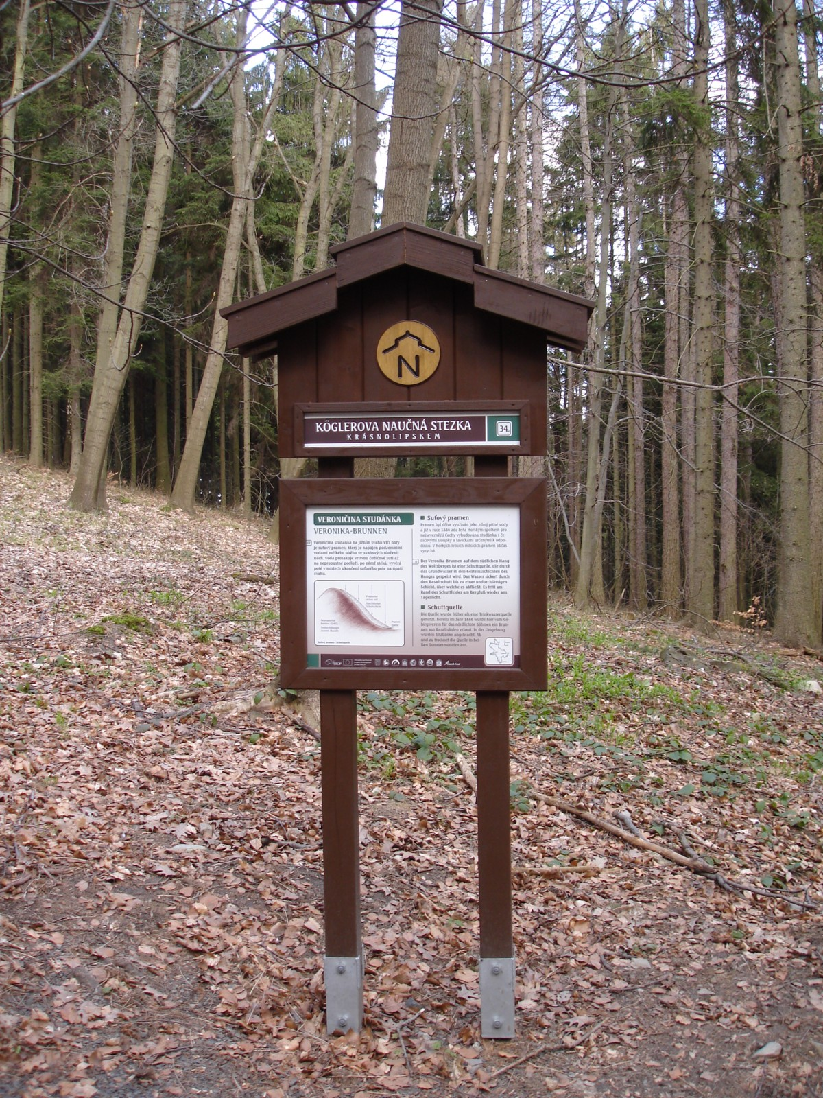 Infoboard at "Köglerova naučná stezka" in Lužické hory (Lusatian mountains), czech republic